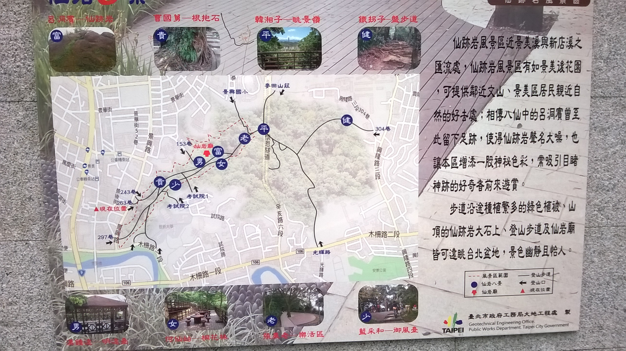 famous hiking trail of Taipei city